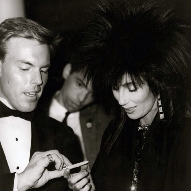 Photo of my old friend Ricky meeting singer-actress Cher during an autograph session in NYC